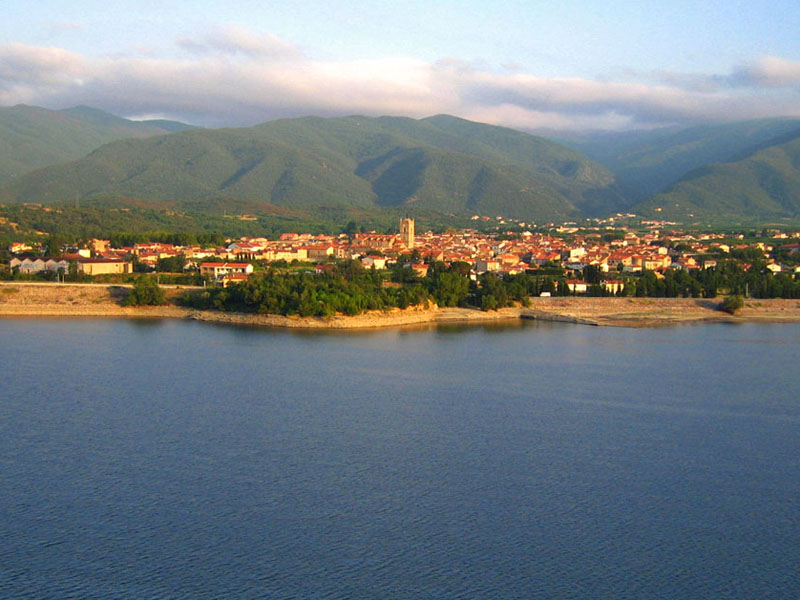 Vinçà, county Conflent, French Catalonia.